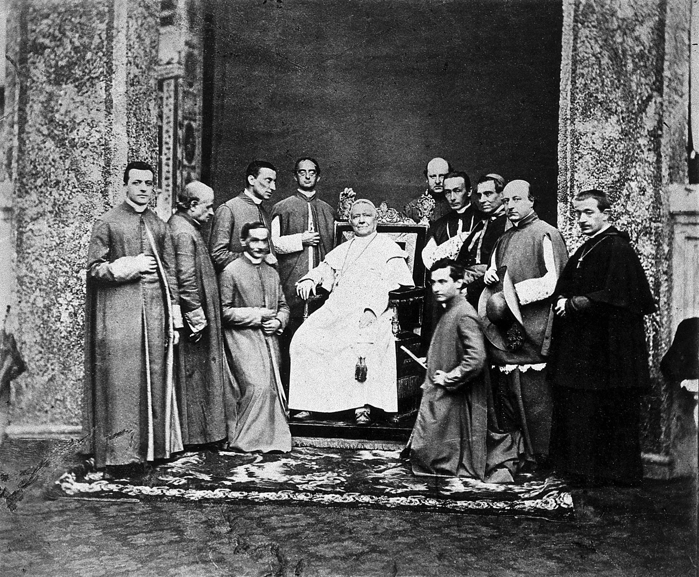 Pope Pius IX and members of the Papal court. They are Monsignor Ricci, Monsignor Tella (confessore), Monsignor [name lacking] (inginocchiato), Monsignor de Mérode, Monsignor Borromeo, Monsignor Santo Padre, Monsignor Talbot, Monsignor Principe Hohenloe [sic], Cardinal Antonelli, Monsignor Pacca, Monsignor [name lacking] (Sacrista), Monsignor Negretto (Genovese).